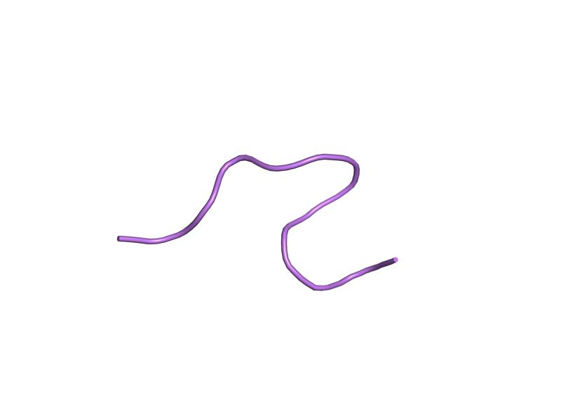 Cartoon representation of the molecular structure of protein registered with 1ixu code.